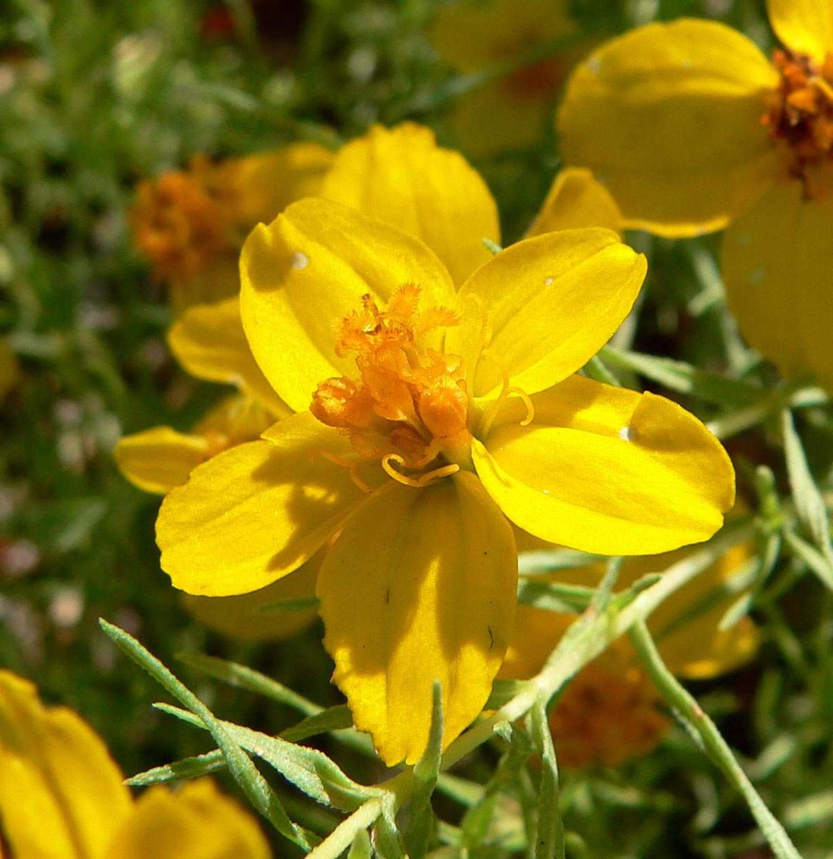 Photo of Zinnia grandiflora at the Springs Preserve garden in Las Vegas, Nevada